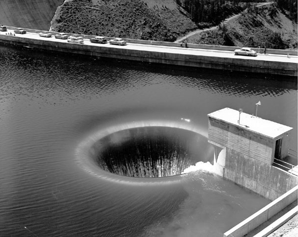 Photograph Number P447-100-575. Hungry Horse Project, Montana. View of Hungry Horse Dam "glory hole" spillway, passing 30,000 cubic feet of water per second--about 225,000 gallons per second.